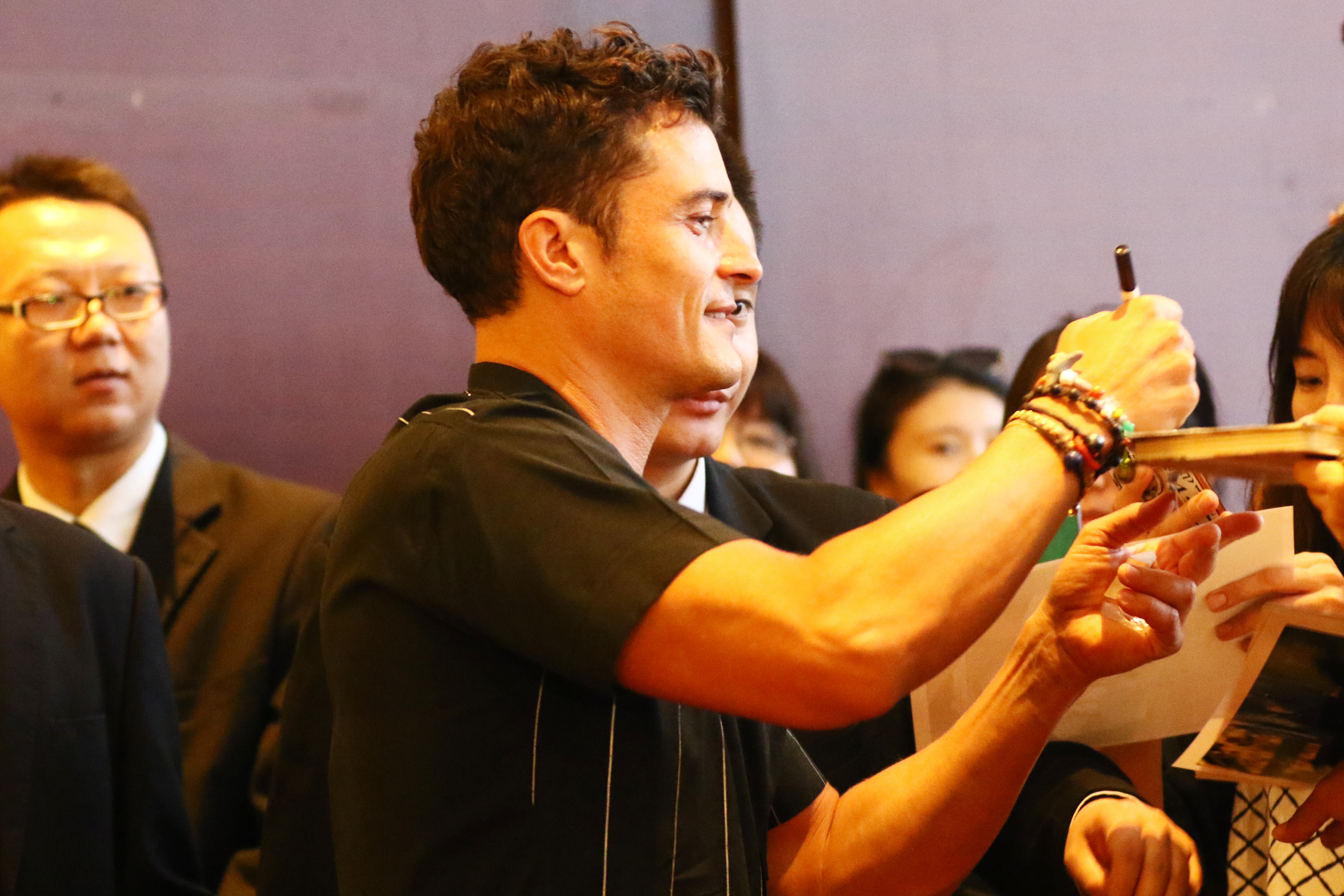 Orlando Bloom S.m.a.r.t Chase 2017